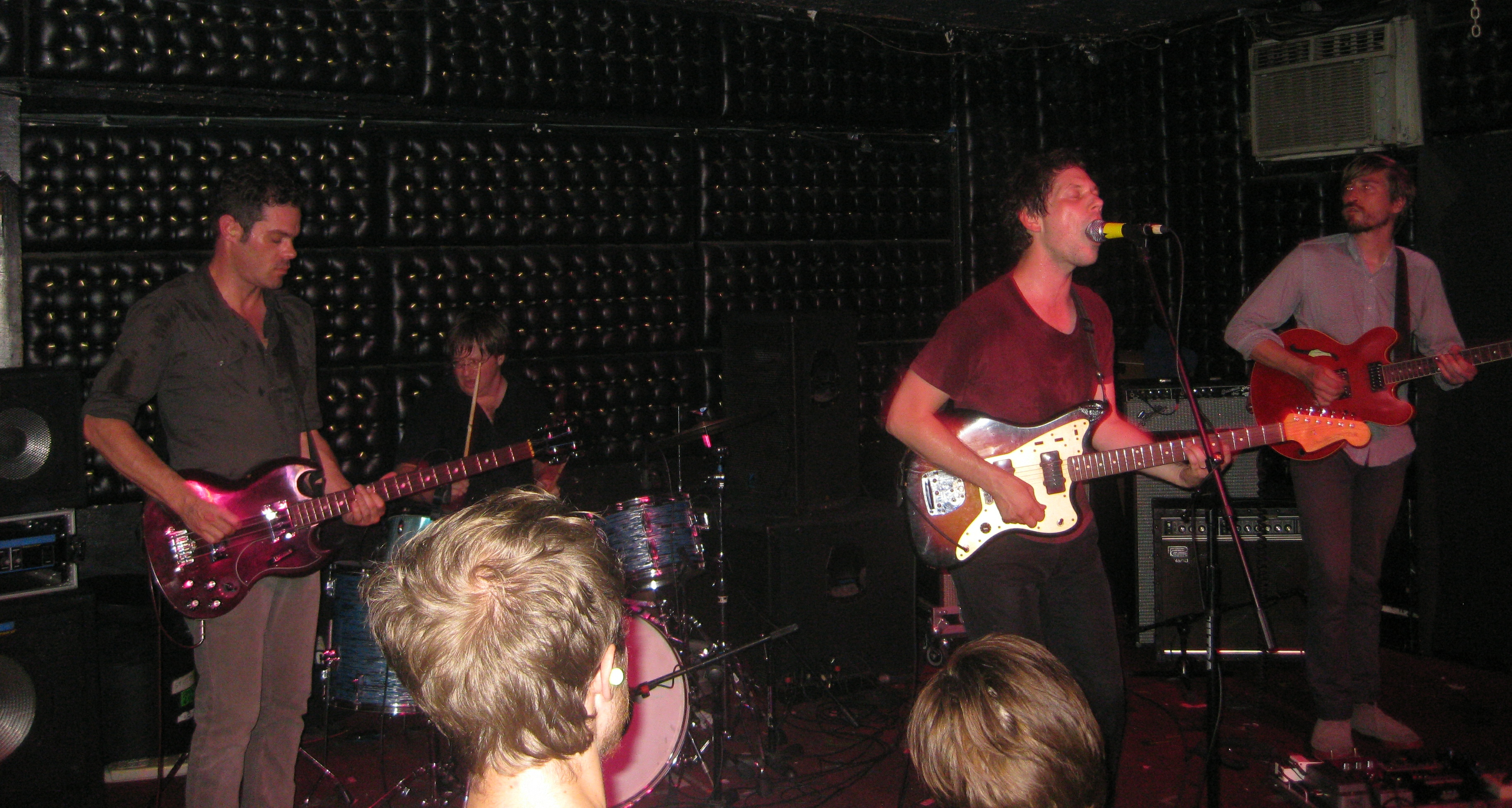 The band Disappears performing at The Casbah in San Diego, California on August 25, 2011. Left to right: bassist Damon Carruesco, drummer Steve Shelley, singer/guitarist Brian Case, and guitarist Jonathan Van Herik.